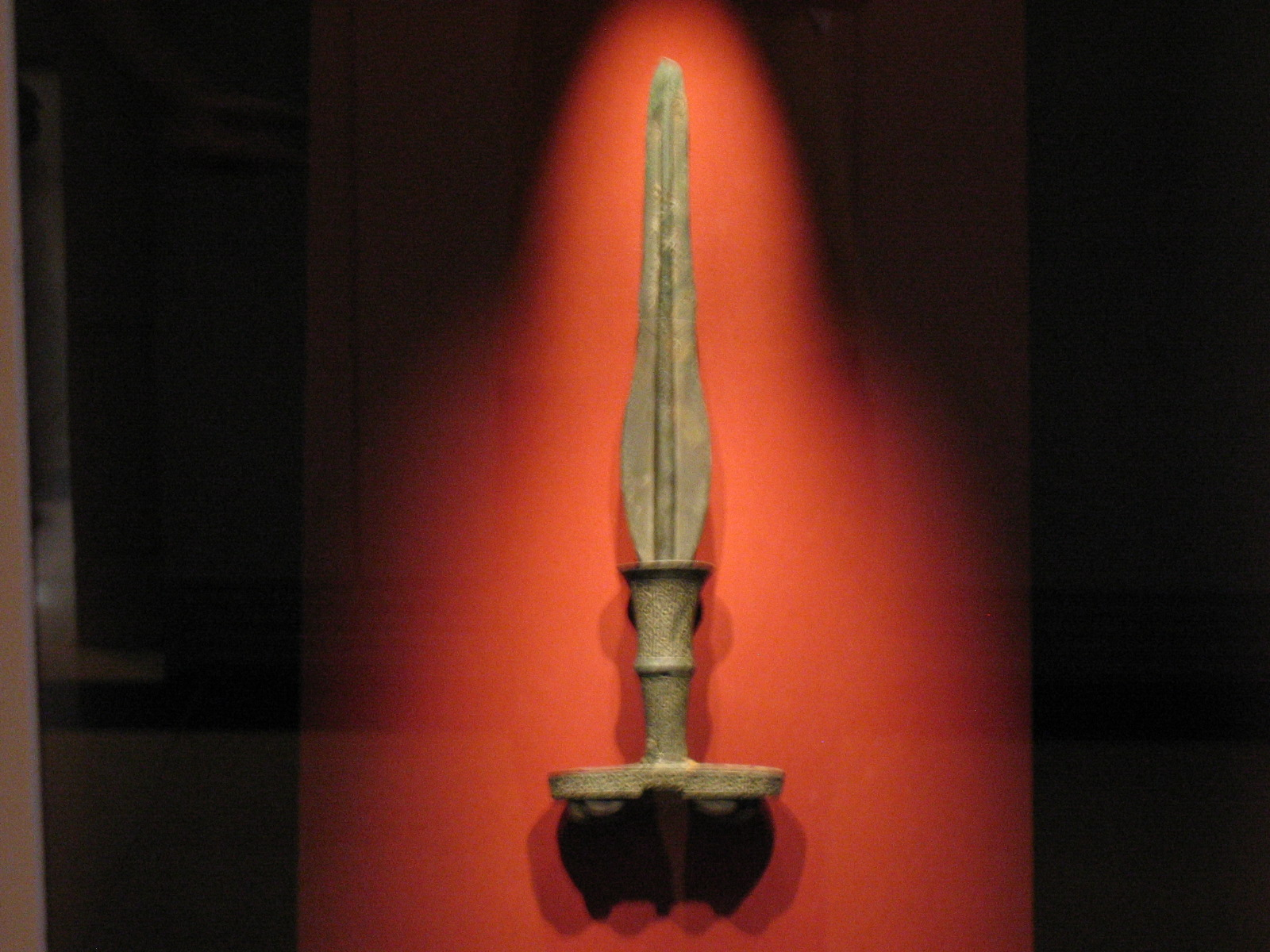 unidentified Bronze Age sword on exhibit at the National Museum of Korea.